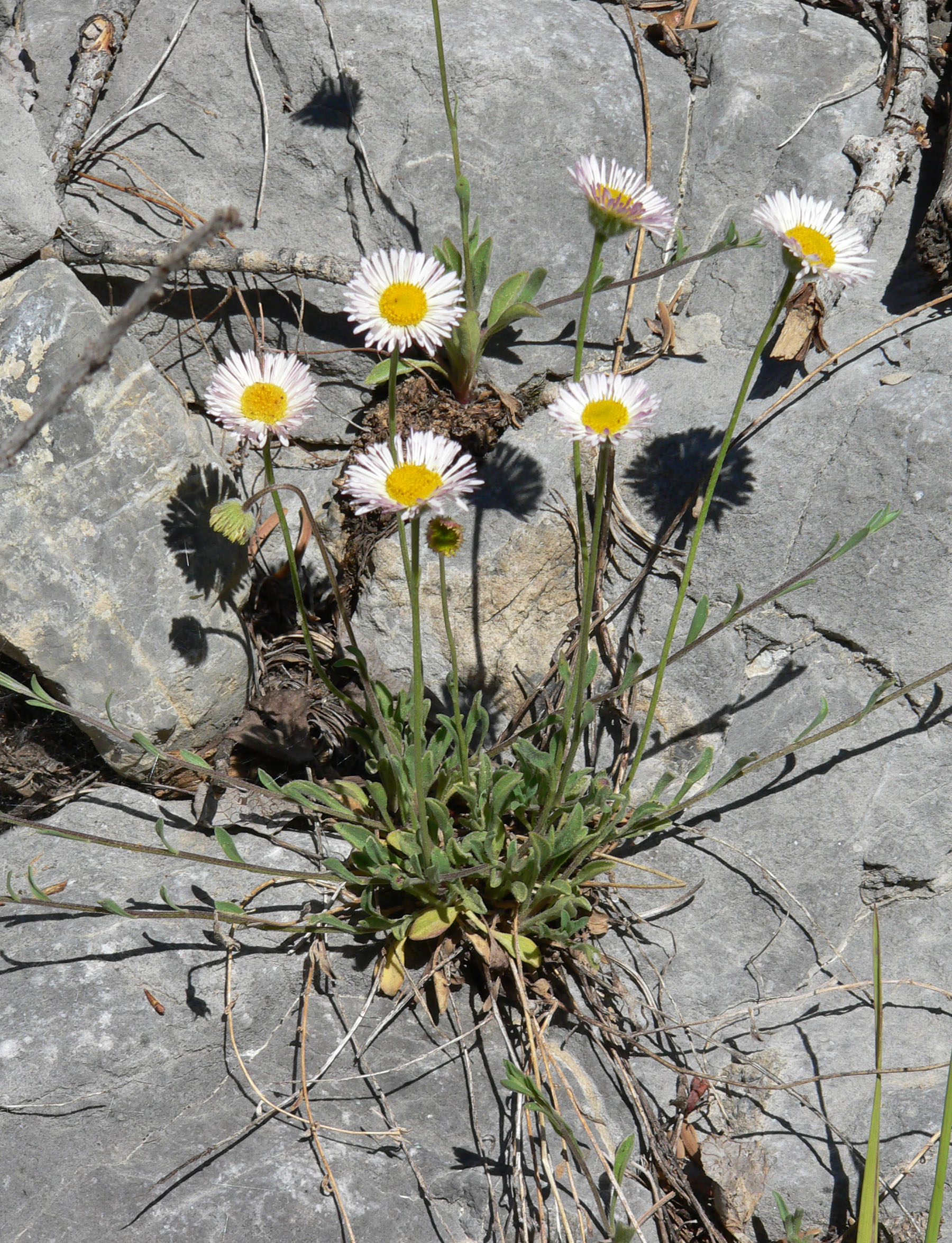 Erigeron flagellaris alongside the Cathedral Rock Trail, Kyle Canyon, Spring Mountains, southern Nevada (elev. about 2500 m)